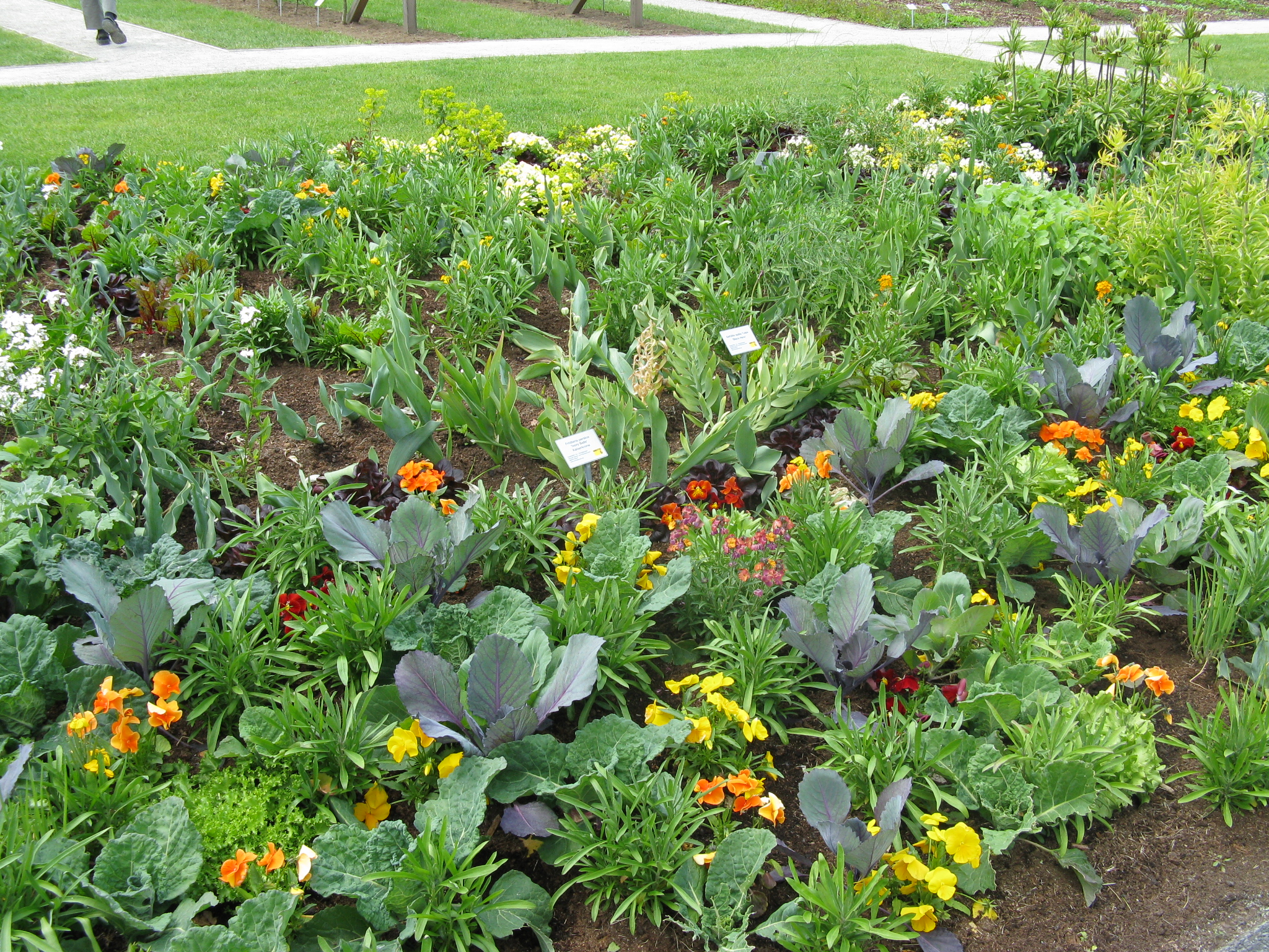 Bundesgartenschau 2009 - Kitchen garden in Schwerin, Mecklenburg-Vorpommern, Germany